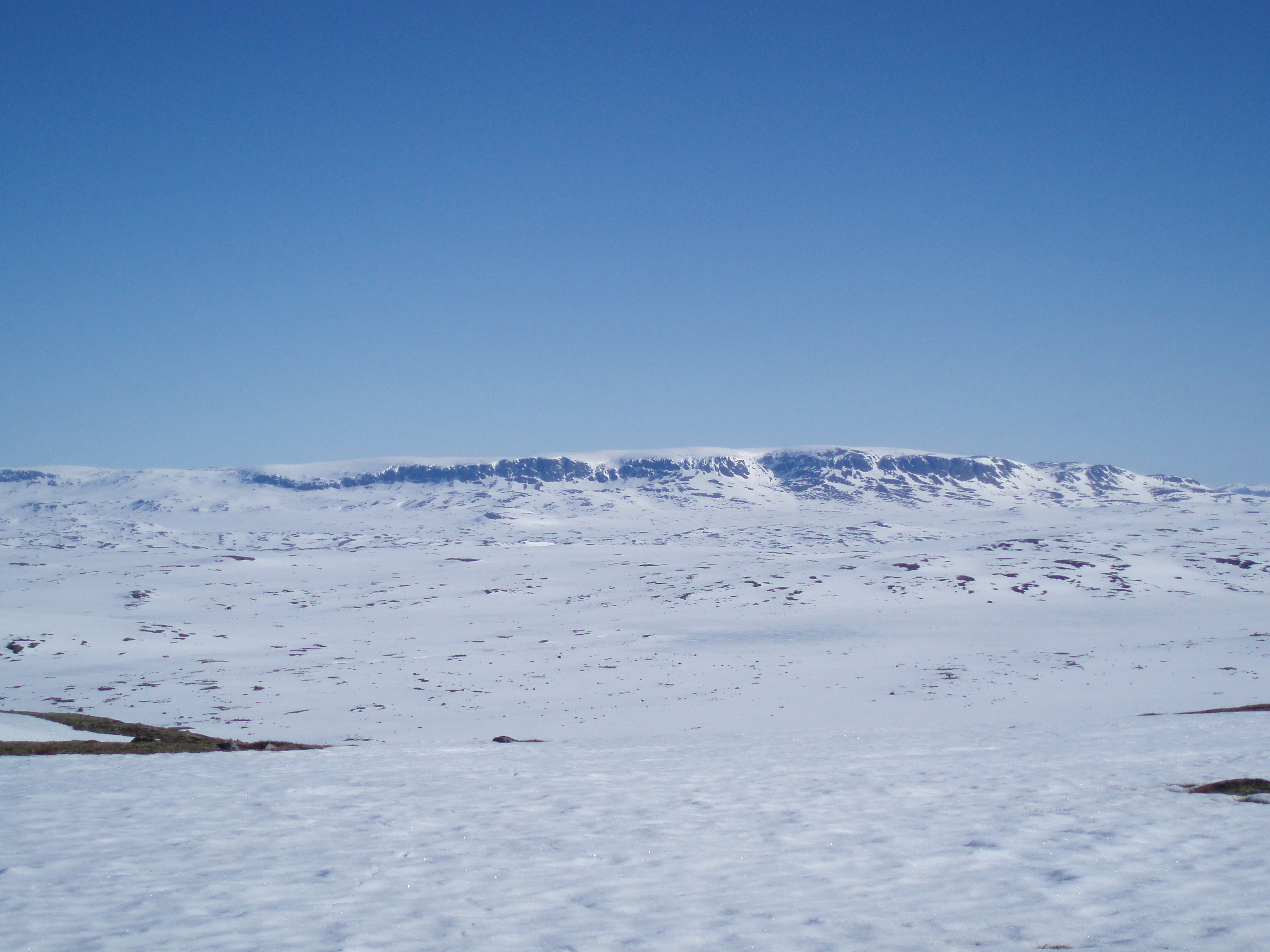 Hallingskarvet national park seen from south. The picture is taken from the mountain Store Grønenuten at Hardangervidda.